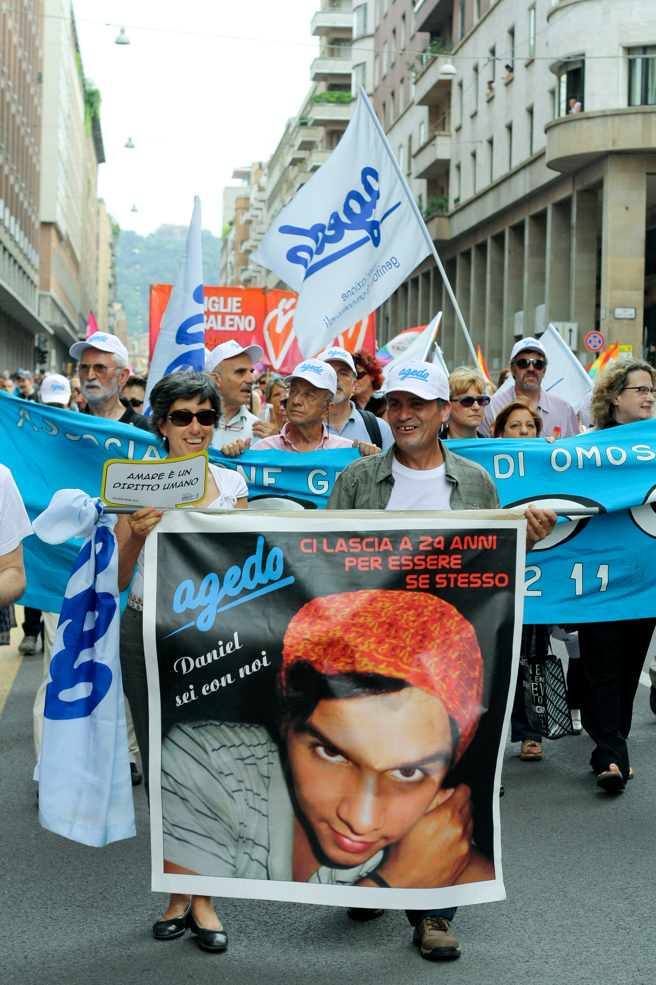 Ivan Zamudio, holding the image of his son Daniel Zamudio, portrayed at the Bologna Pride 2012, in Bologna, Italy.